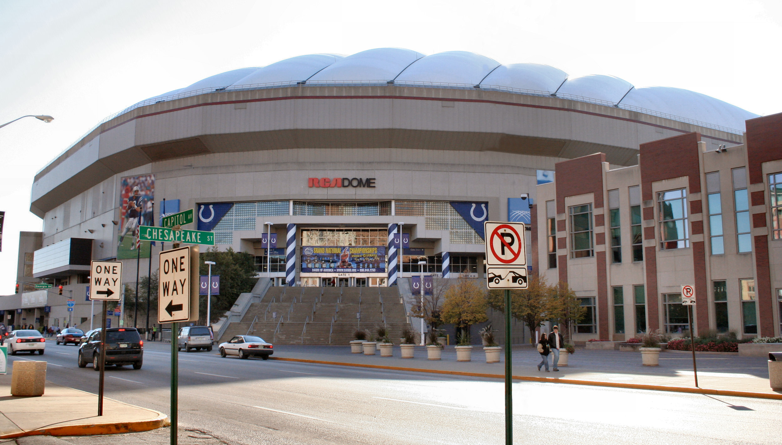 RCA Dome in Indianapolis. Photo by Derek Jensen (Tysto), 2005-October-29 Technical note: The "No Parking" sign on the right is actually mounted on a street light post, which I photoshopped down to a sign post to be less distracting.